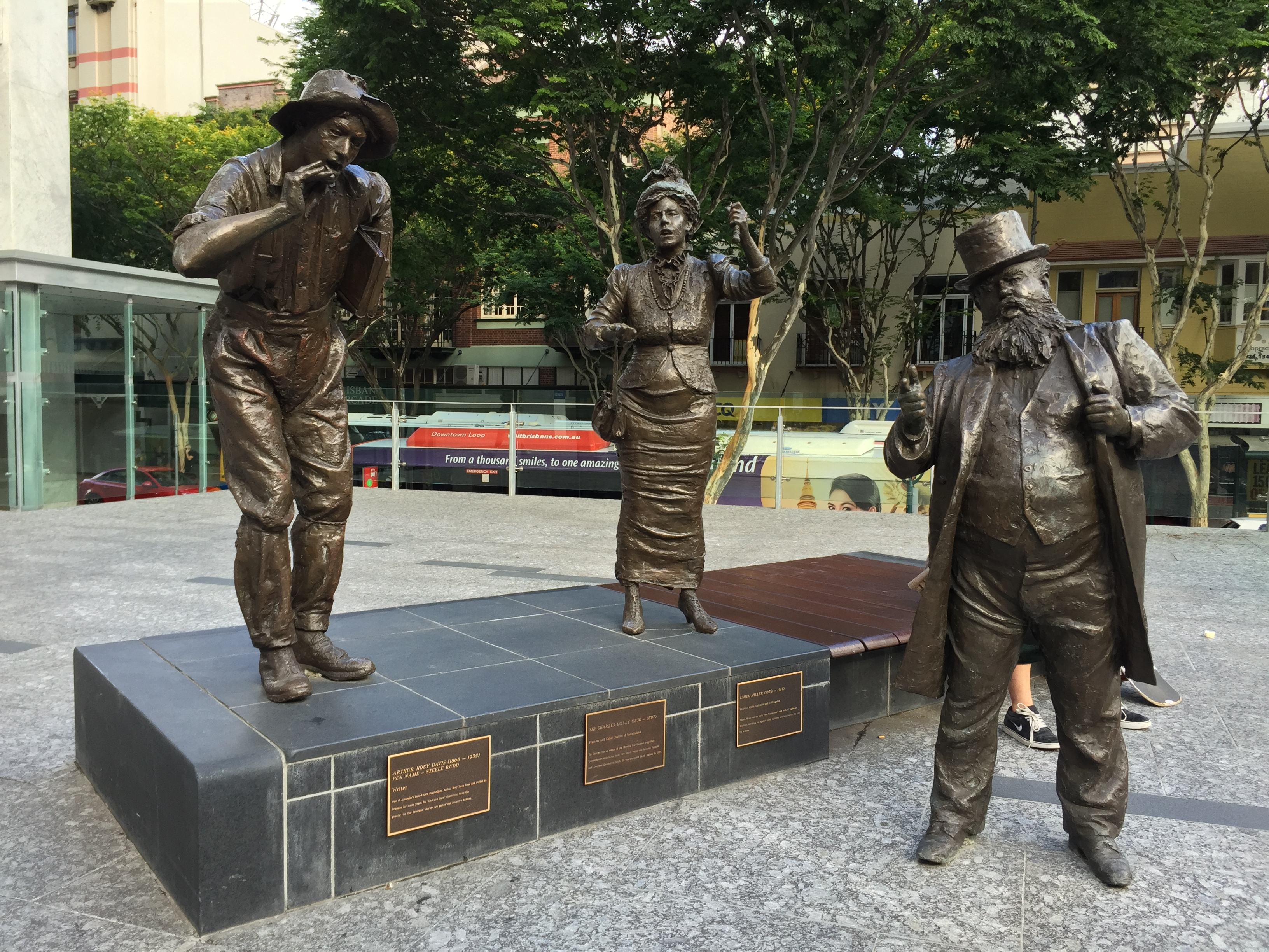 Arthur Hoey Davis -Steele Rudd, Charles Lilley and Emma Miller statues located in King George Square in Brisbane, Australia. Artist: Artbusters Materials: Bronze Installation date: 1993